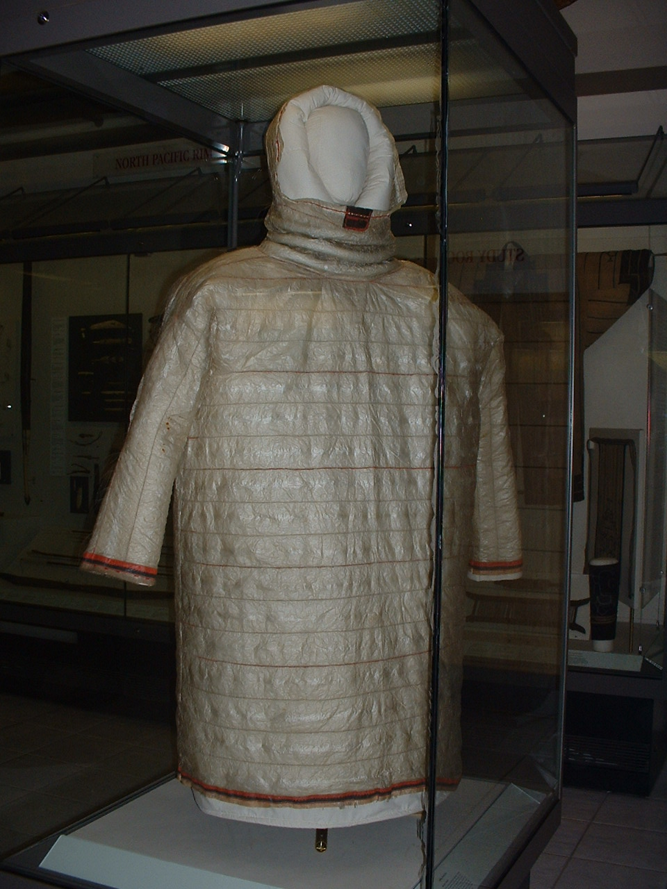 Photographed at the Royal Albert Memorial Museum & Art Gallery (RAMM) on 21-Feb-06. Legend reads: Parka (Kamleika) Aleutian Islands. Aleut hood ceremonial kamleika. Waterproof overdress of sea mammal gut. Panel at chin is dyed gut applique with red wool embroidery. Fur and dyed gut applique trim the cuffs and hem. Human hair decorates the seams. Worn by a person of high rank or by a shaman when making contact with the spirit world. Collected before 1869. Whitney collection. The caption information presented above is out of date. From recent research the current display caption reads as follows "1 Parka (kamleika) 19th century Aleut, Arctic region A completely waterproof garment made of strips of seal gut that in Arctic conditions remains pliable. Double folded seams stitched with sinew thread and bird-bone (later iron) needles. This type of kamleika was worn by men, over a fur or bird skin parka, when out hunting in kayaks." There is no evidence that the parka was used by a shaman. However, it was collected prior to 1869 and is one item from the Whitney collection. [Tony Eccles, Curator of Ethnography, Royal Albert Memorial Museum & Art Gallery].